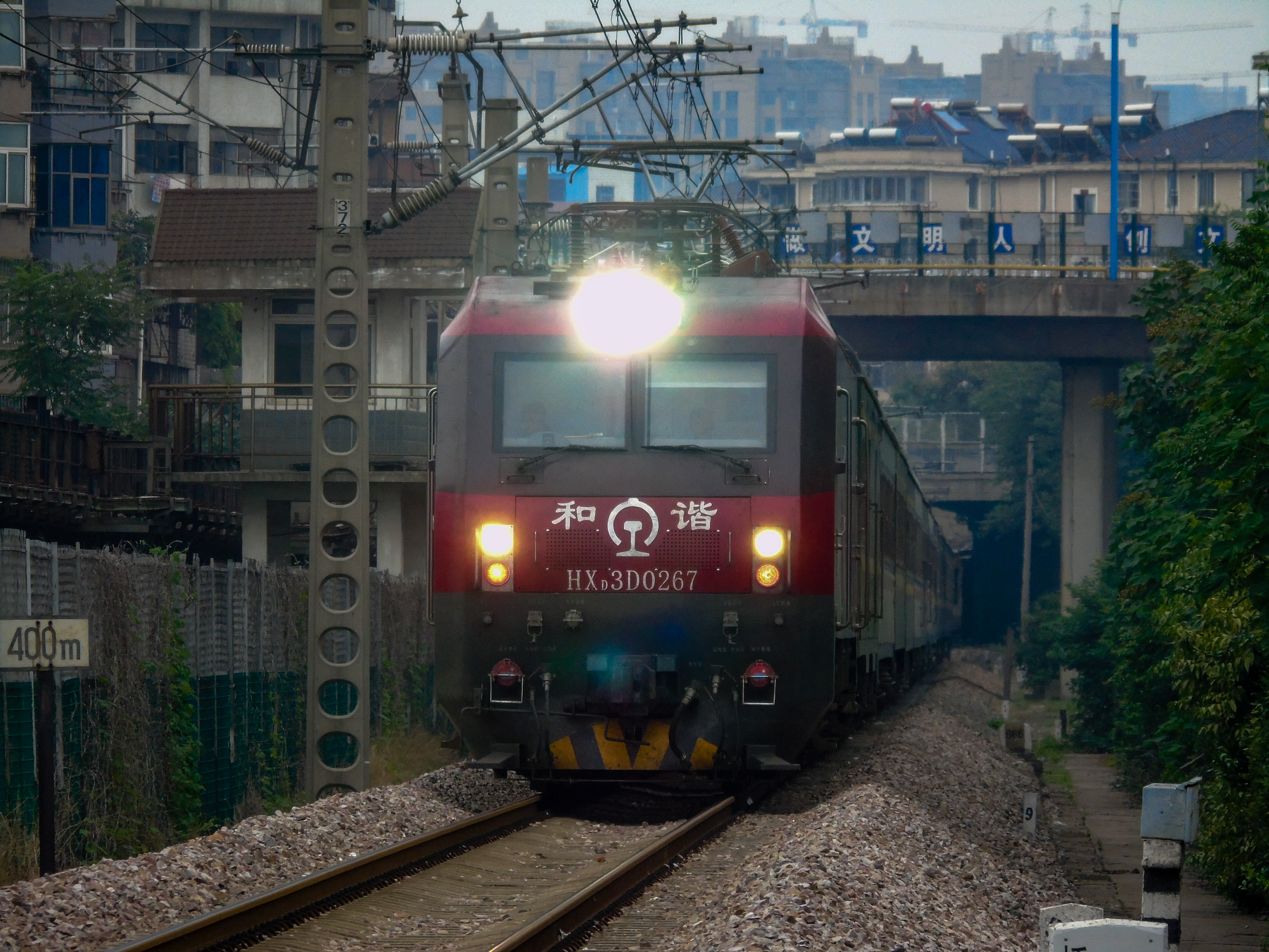 HXD3D0267 T204 Shanghai to Yining Bengbu Railway Station.jpg